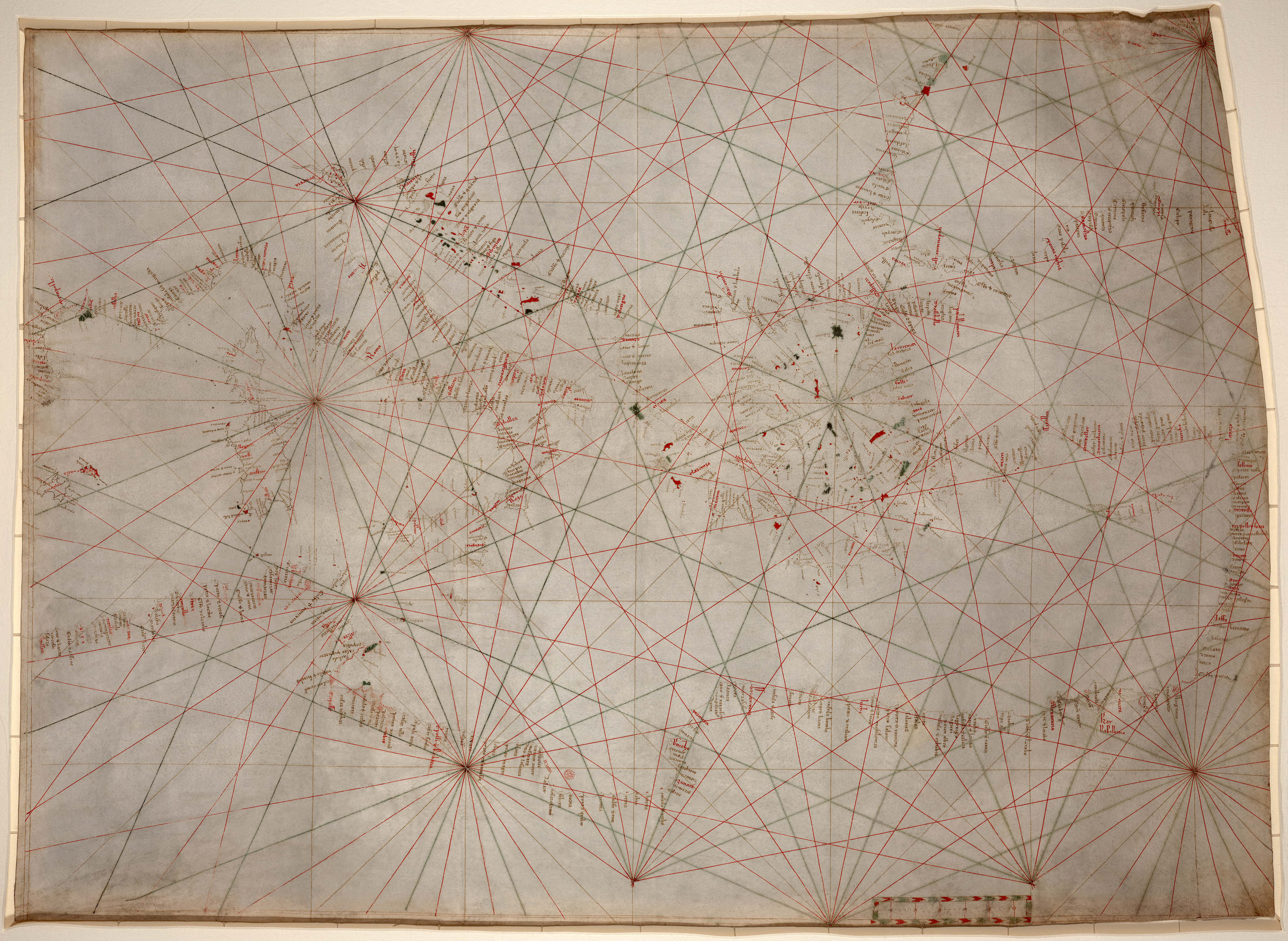 Anonymous nautical chart in portolan style probably drawn in Genoa. Covers Mediterranean Sea from the Balearic Islands to the Levantine coast; also covers western part of Black Sea. Oldest original cartographic artifact in the Library of Congress. Title from printed label on box in which the map is housed. Pen-and-ink (red/green/brown). Matted and mounted between sheets of transparent lucite. Sheet cut into the shape of an irregular rectangle. Imperfect: Vertically fold-lined at center, cracked, annotated in pencil on verso. Includes bar scale with unidentified divisions. The green rhumb lines on the recto are also visible on the verso. Scale [ca. 1:5,500,000].